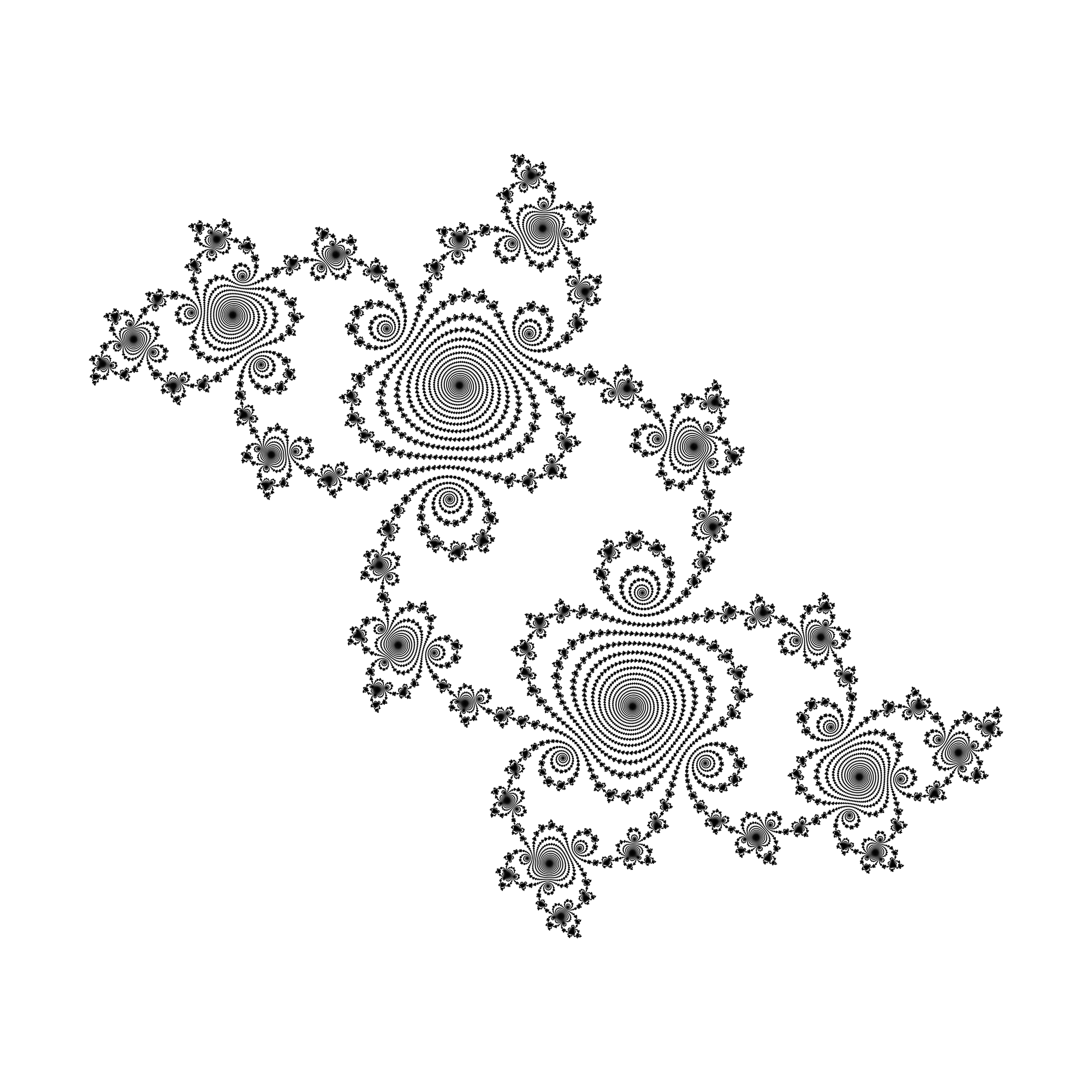 Julia set for fc(z)=z*z + c and c=-0.1+0.651. Made using DEM/J. C parameter for this file is from program by Jonas Lundgren